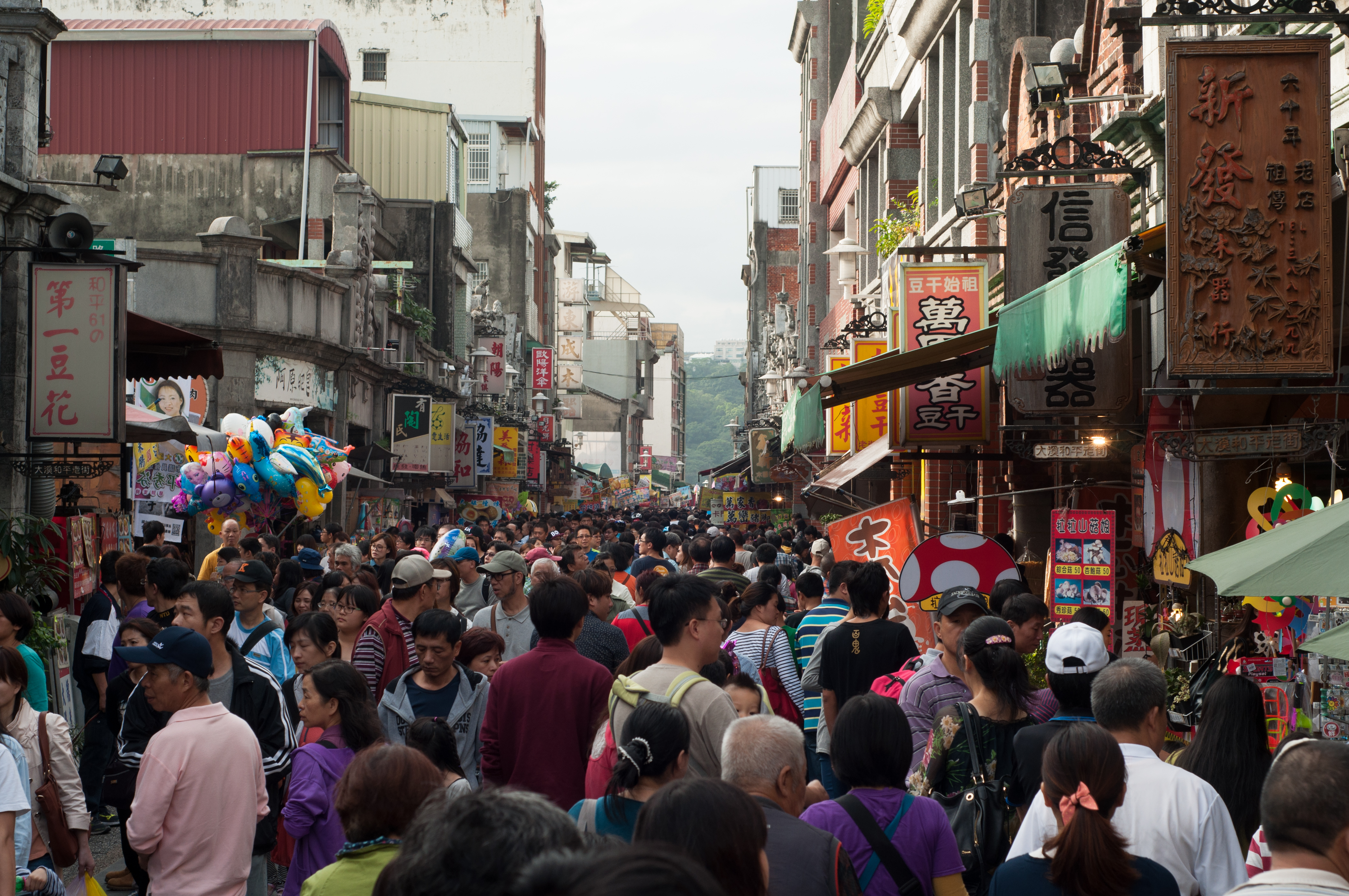 A crowd gathers in Daxi, Taiwan to browse market food.